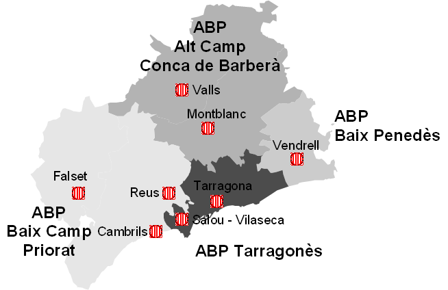 Map of Police Region of Camp de Tarragona and police stations.